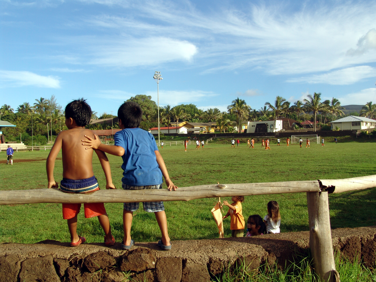 A football game in Hanga Roa - Easter Island